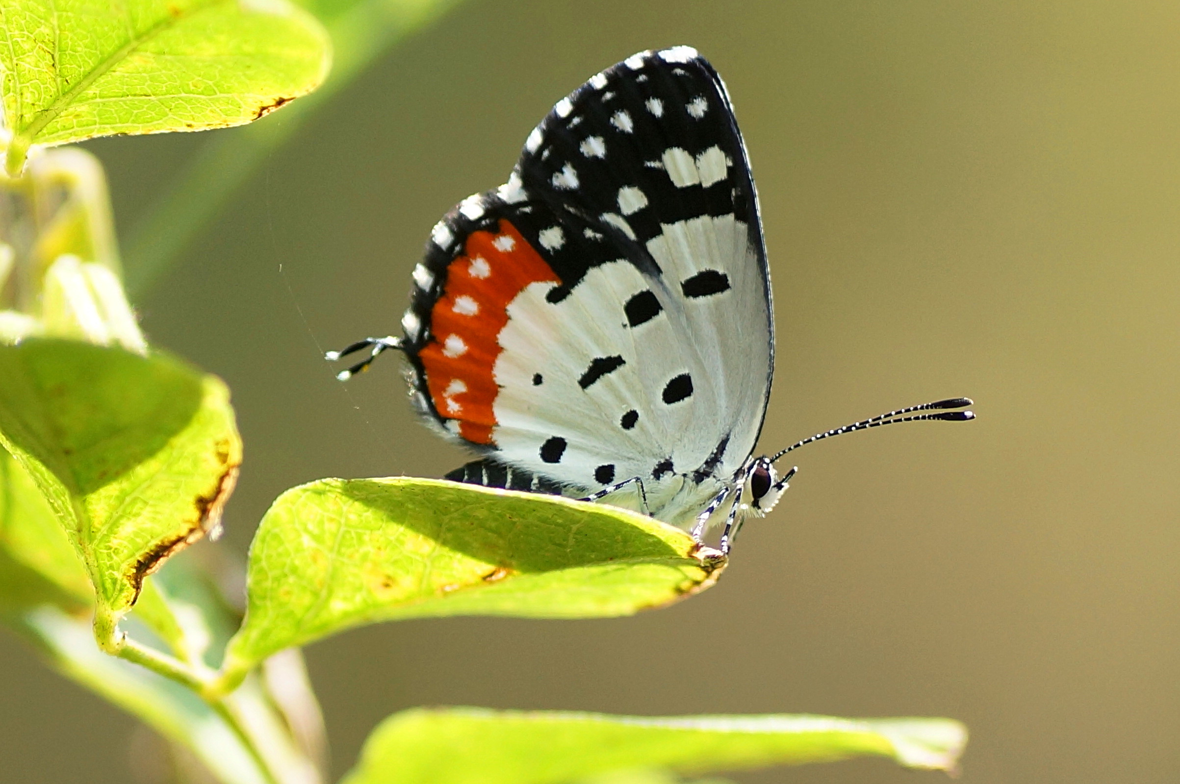 Red Pierrot